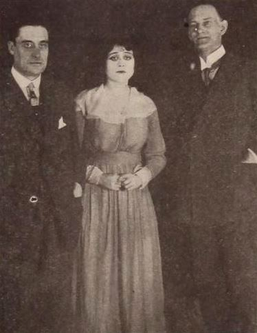 Fox Film managing director Ernest Reed, Theda Bara, and Harry Engholm, who was Mr. Reed's publicity manager, on page 17 of the December 15, 1917 Exhibitors Herald. Reed and Engholm were visiting the Grantwood, New Jersey studios during their trip to New York City.